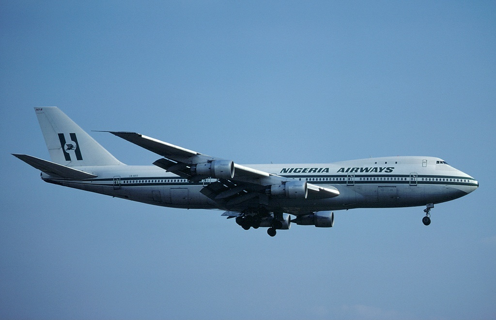 Nigeria Airways (leased from Scandinavian Airlines System Boeing 747-283B LN-AEO at London Heathrow Airport